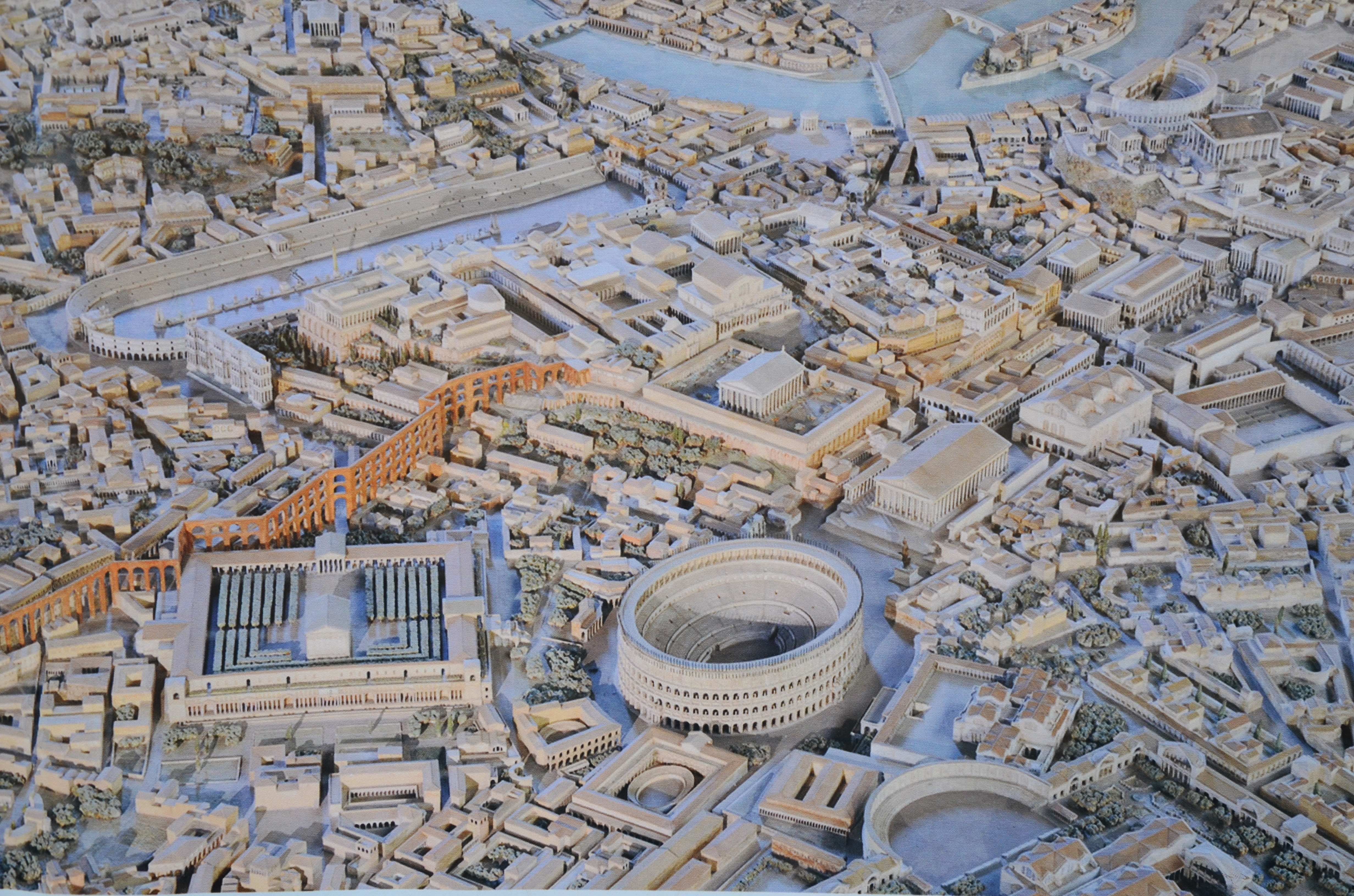 Model of imperial Rome, Area of the Velian Hill and the Valley of the Colosseum in I. Gismondi's large 1987 model of Rome, Museo della Civita Romana